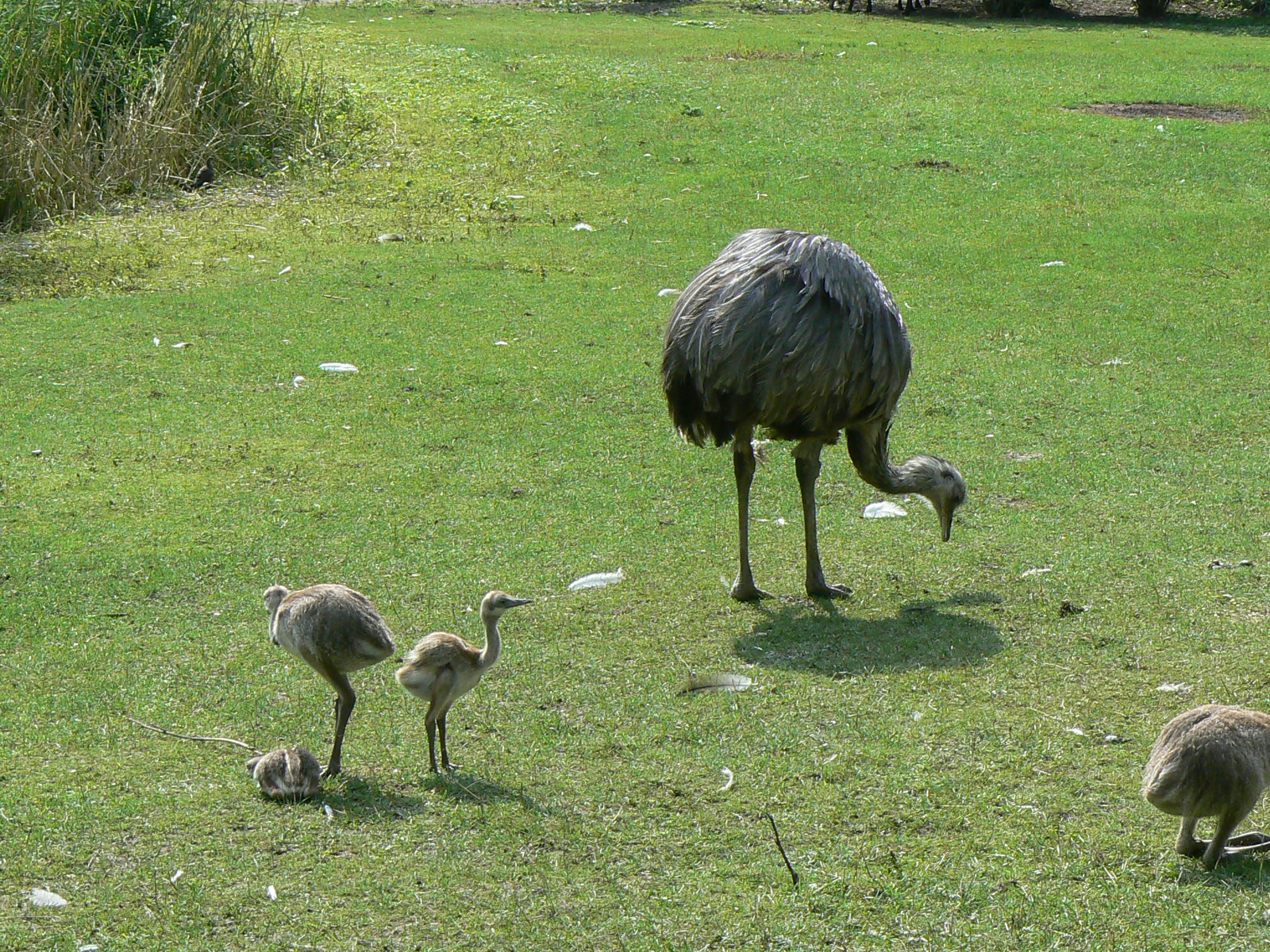 rhea americana / Greater rhea / nandu